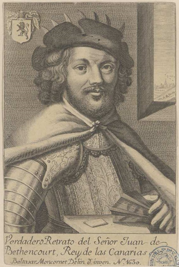 Engraving representing Jean de Bèthencourt, Norman conqueror of the Canary Islands (16.th century).